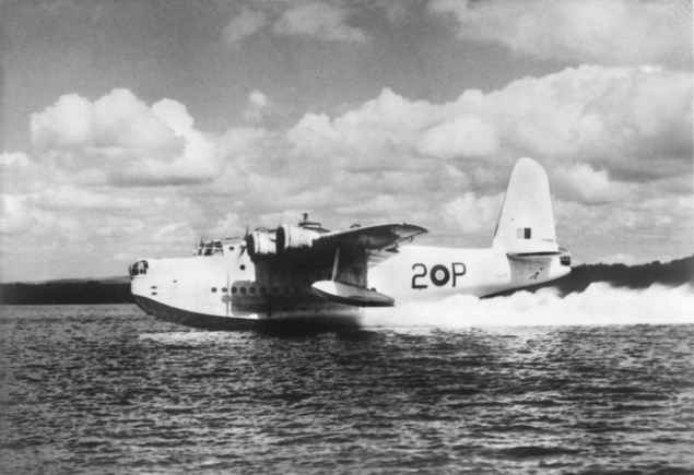 A Short Sunderland Mark III operated by No. 461 Squadron RAAF. AWM Caption: PEMBROKE DOCK, WALES. 1944? MARK V SUNDERLAND AIRCRAFT 'P' PETER OF NO. 461 SQUADRON RAAF TOUCHING DOWN AFTER AN ANTI-SUBMARINE PATROL IN THE BAY OF BISCAY. NOTE THIS AIRCRAFT WAS FITTED WITH FIXED FIRING 20MM CANNON IN THE NOSE.